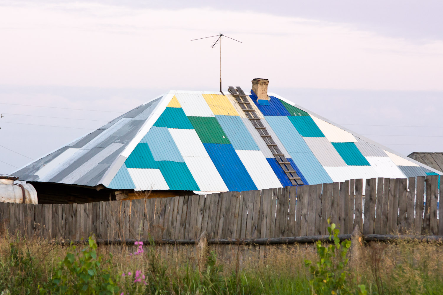 House with multicolor roof in Kalinki, Nizhny Novgorod Oblast.